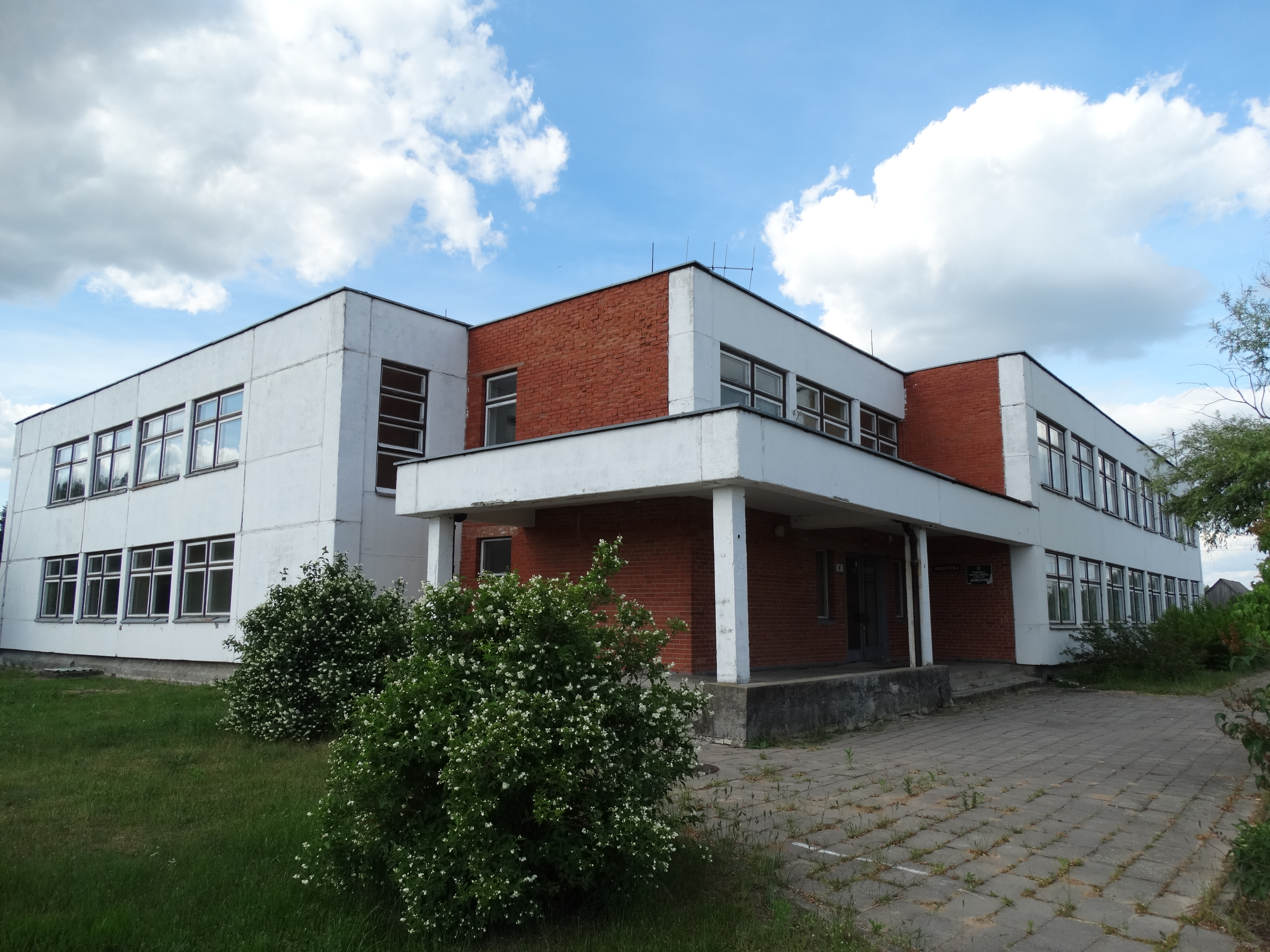 School, Magūnai, Švenčionys District, Lithuania